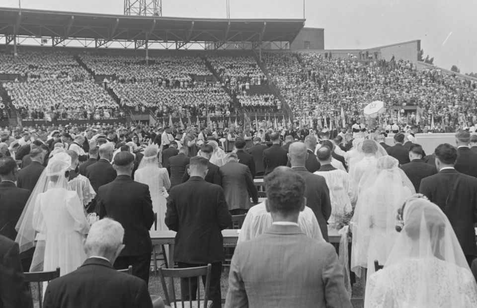 In collective wedding organized by the Fellowship of Catholic Workers Youth or JOC we see open sky gathered at the stadium in Montreal Delorimier many newlywed couples and priests officiating the ceremony vestments. We see the center of the stadium at half-mast flags flying.